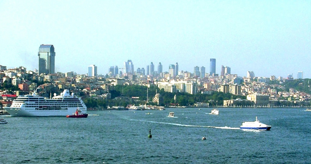 The cruise ship Royal Princess (left) and Seabus (right) on the Bosphorus in Istanbul, as seen from Gülhane Park near Topkapı Palace. The Dolmabahçe Palace is seen to the right side of the frame.